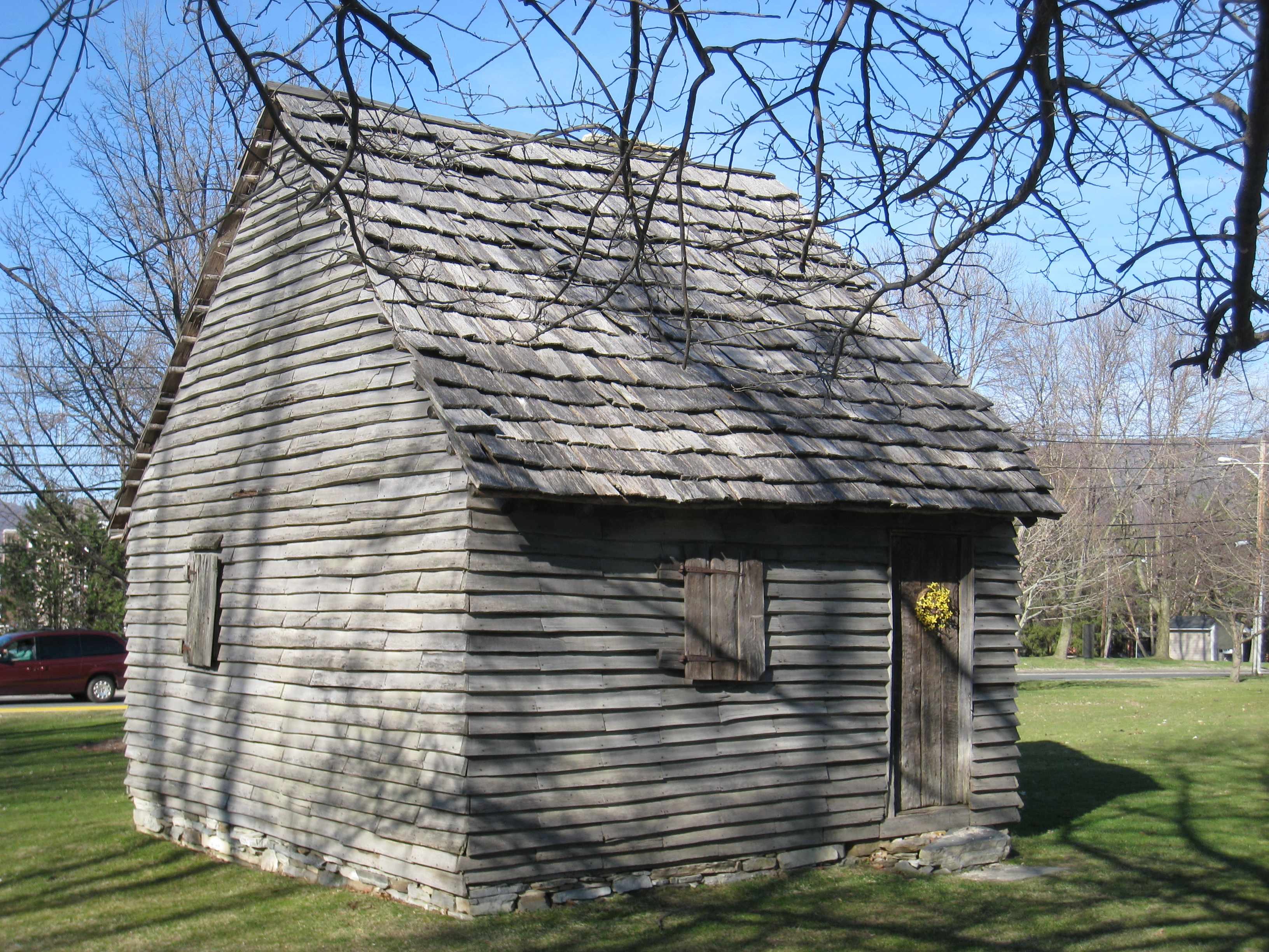 Williamstown, Massachusetts, USA - 1753 house (reconstruction).